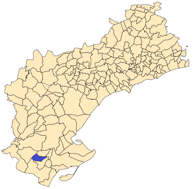 La Galera